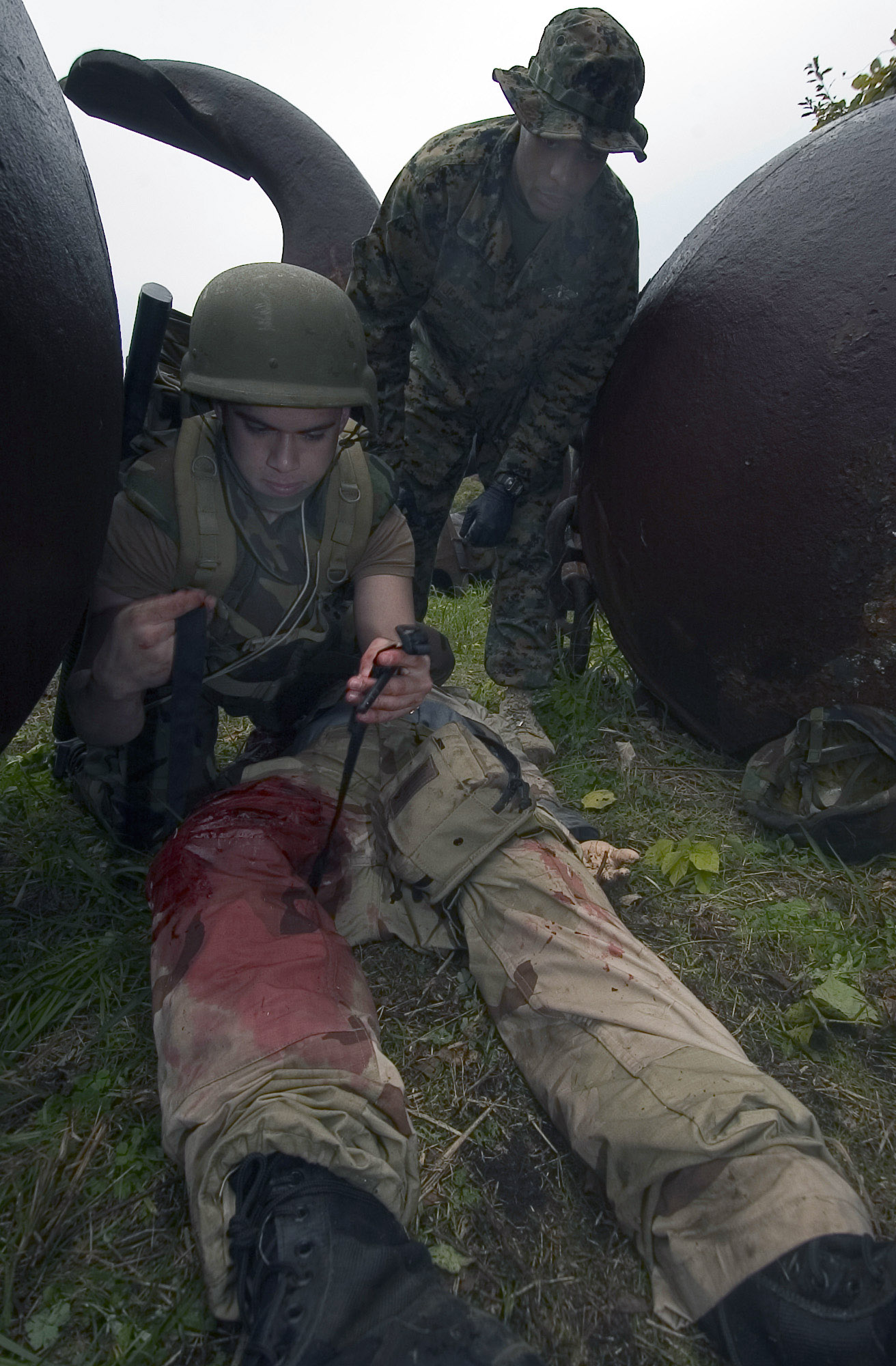 YOKOSUKA, Japan (Nov. 30, 2007) Hospitalman Mark Domingo applies a tourniquet to control bleeding on a simulated casualty during a tactical combat casualty care (TCCC) field training exercise at the Ikego Housing Annex campgrounds. TCCC is a concept of pre-hospital casualty management specific to the combat and tactical environments. During the field training exercise portion of TCCC, Sailors are put into a simulated combat scenario where they have to deal with elements of battle and provide accurate and timely medical care.